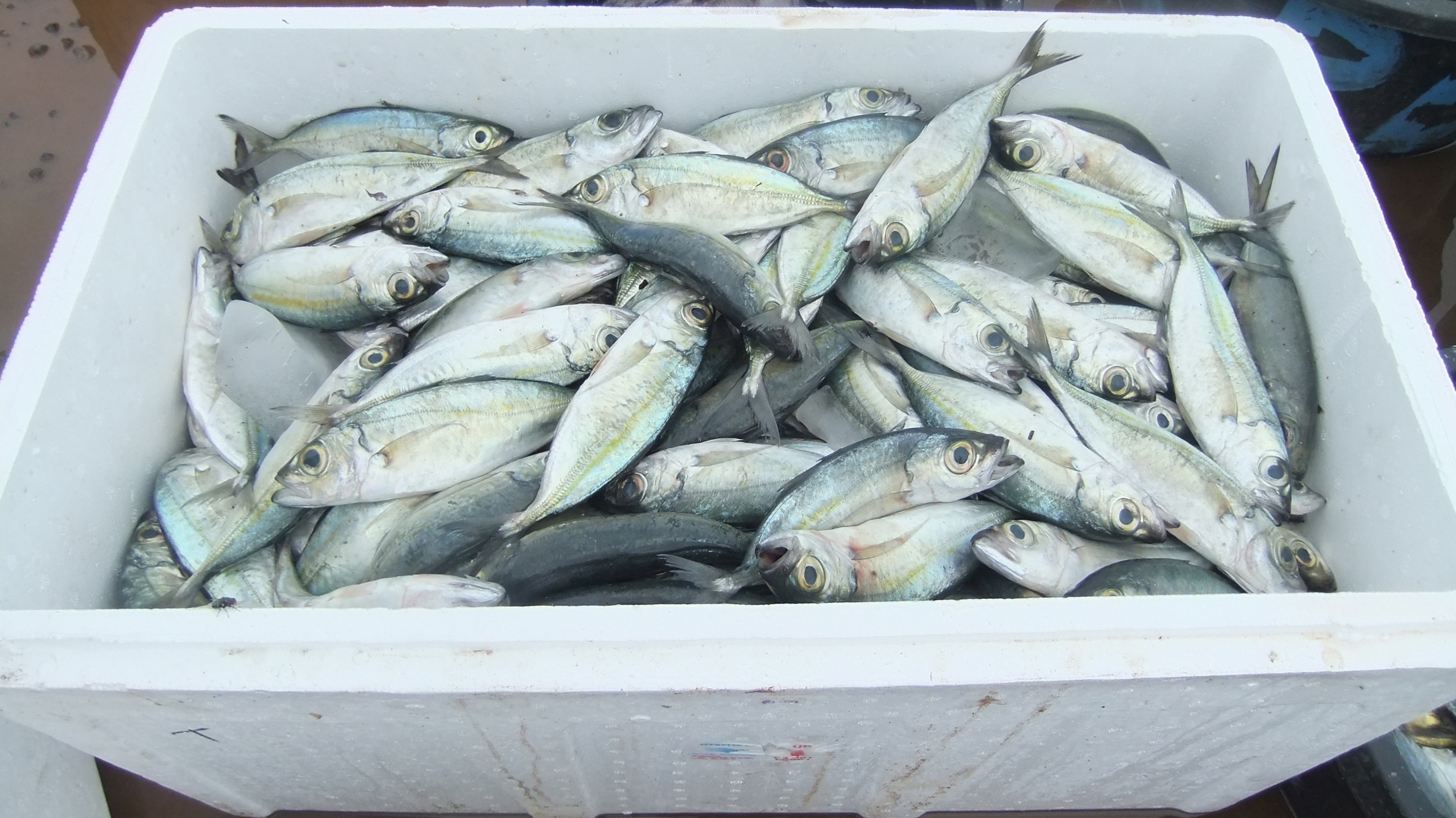 Catch of the day, Port of Bira, Bulukumba, South Sulawesi